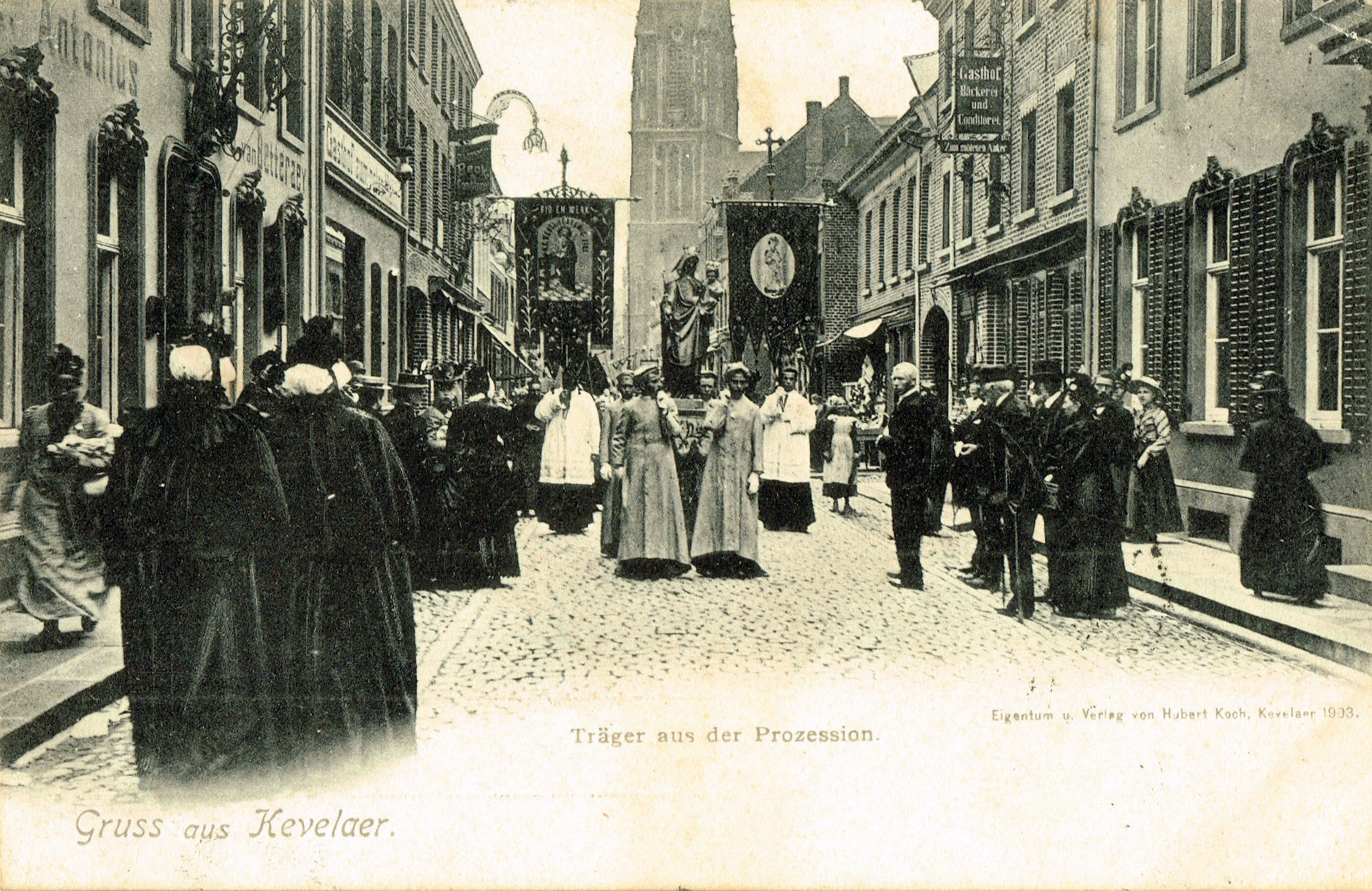 Postcard of Kevelaer published in or before 1905